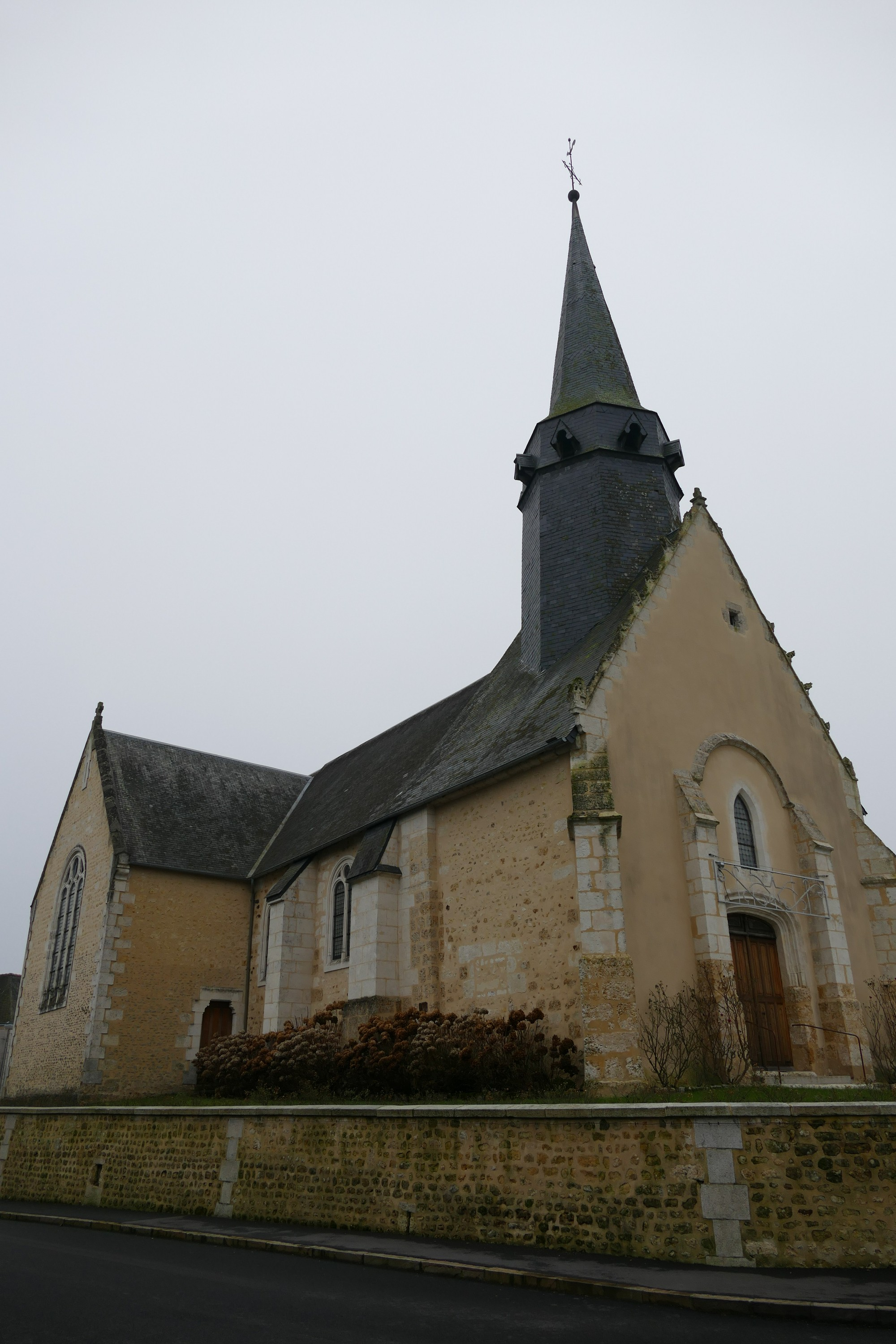 Saint-Peter's church in Coulimer (Orne, Normandie, France).